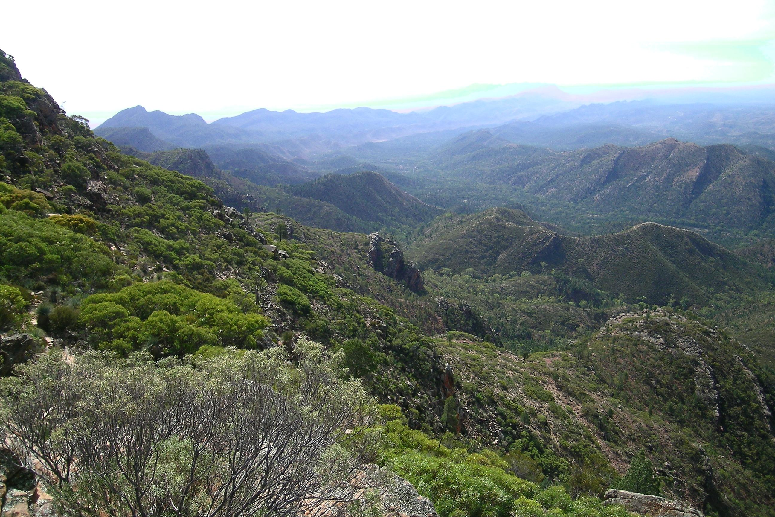 Wilpena Pound in South Australia, view from St. Mary's Peak (1170m)